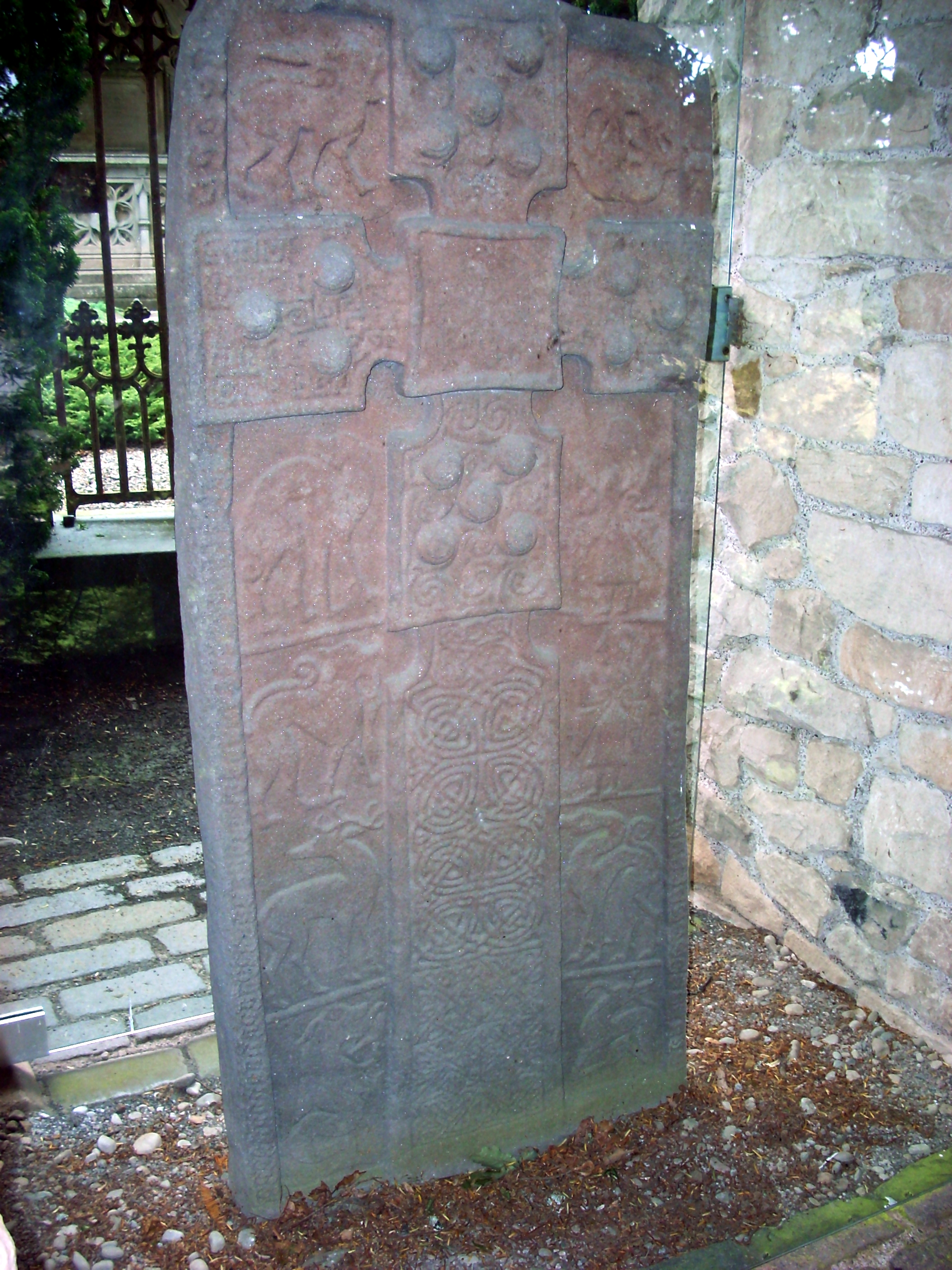 Front of the Dunfallandy Stone, a Pictish stone near Pitlochry, Scotland.